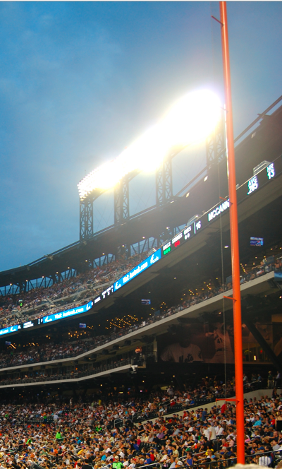 If the ball hits the foul pole, the ball is fair and a home run is awarded to the batter. Citi Field's left field foul pole used in the sport of baseball. Left field foul pole at Citi Field in Flushing, Queens. (Photo taken from the left endfield. Batter would be located past the lower left of the photo)